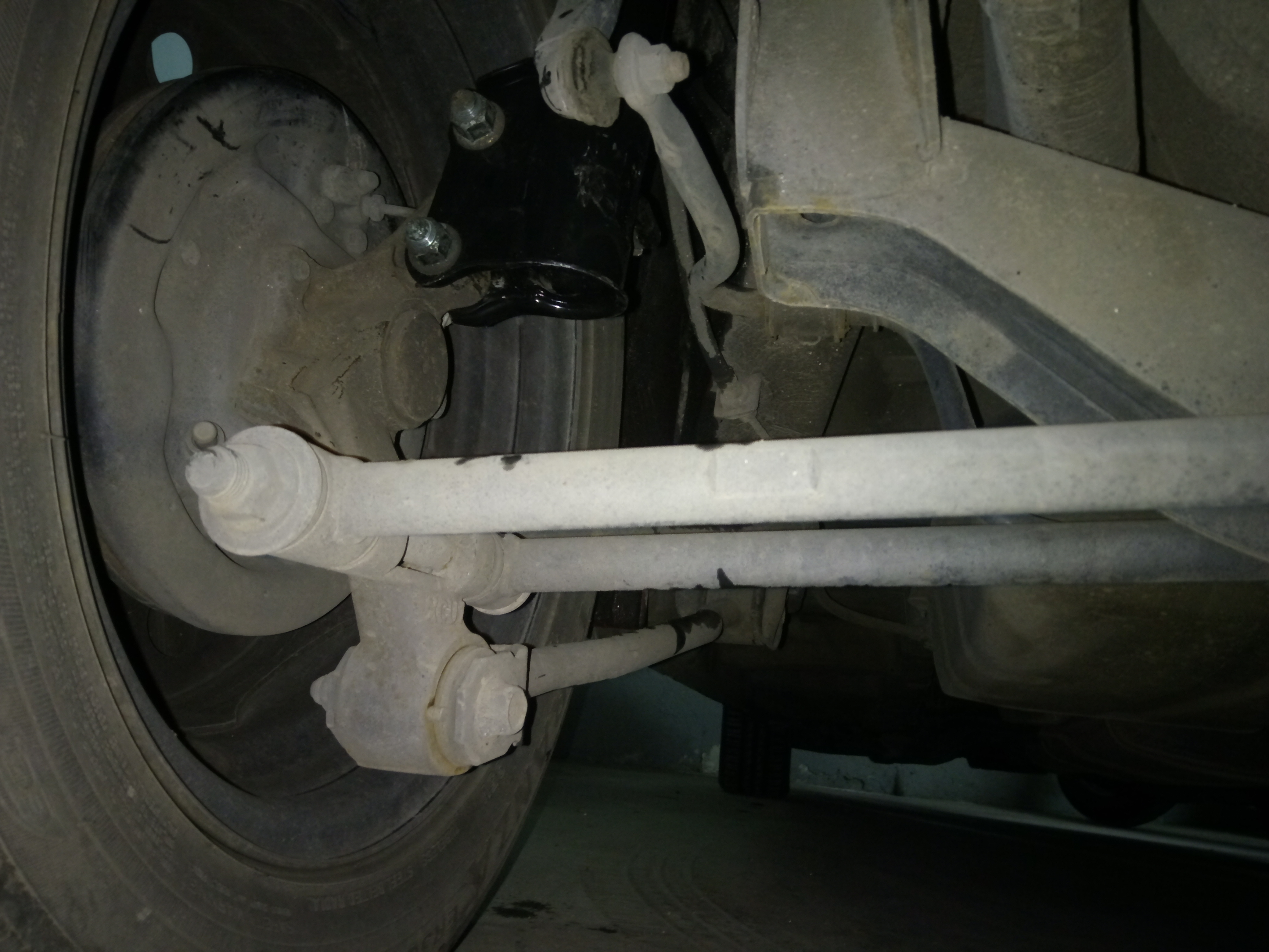 4 link rear Mc Pherson "camuffo-type" arrangement